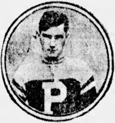 Canadian ice hockey player Dick Irvin with the Portland Rosebuds in 1916–17.